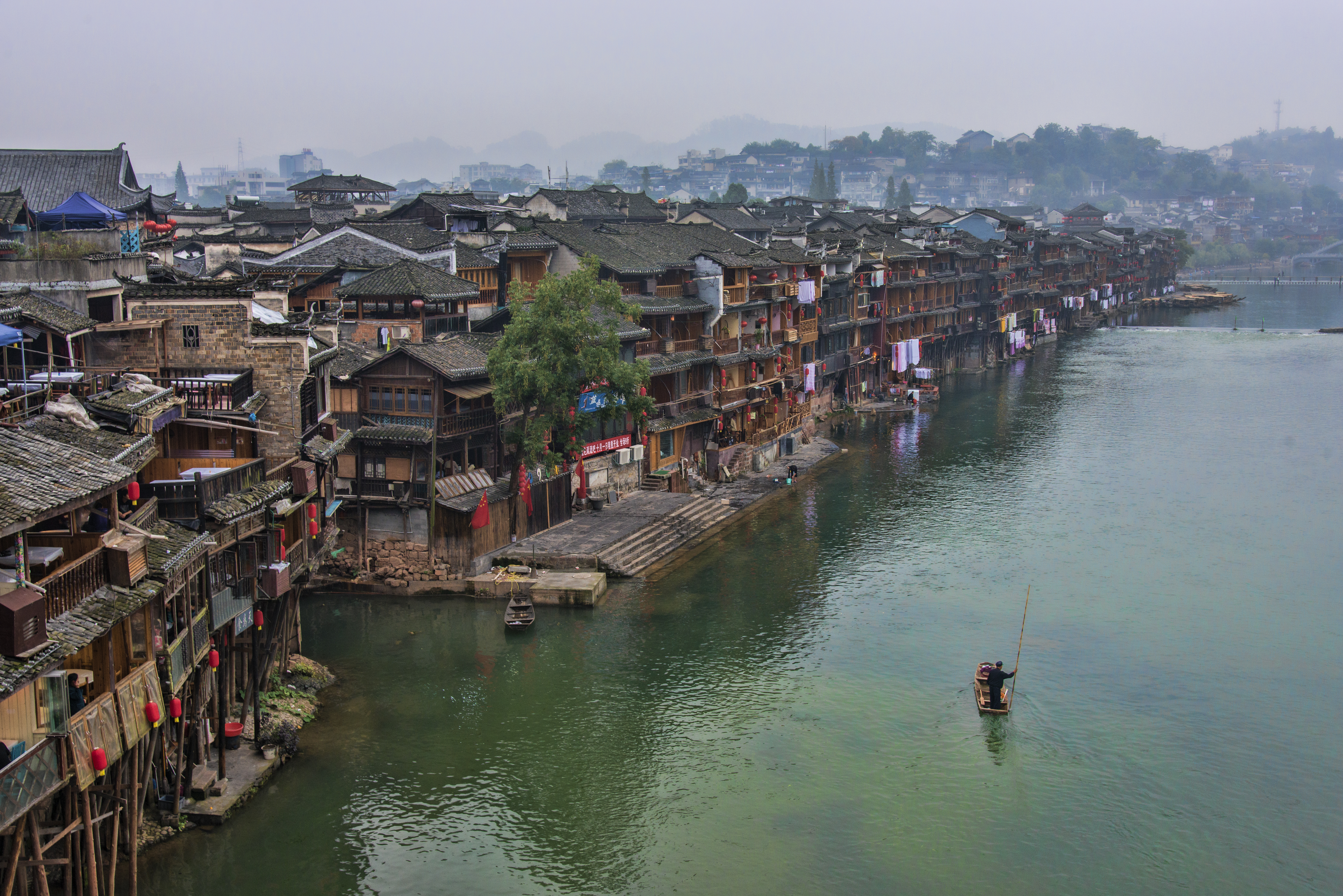 fenghuang ancient town hunan china 2012